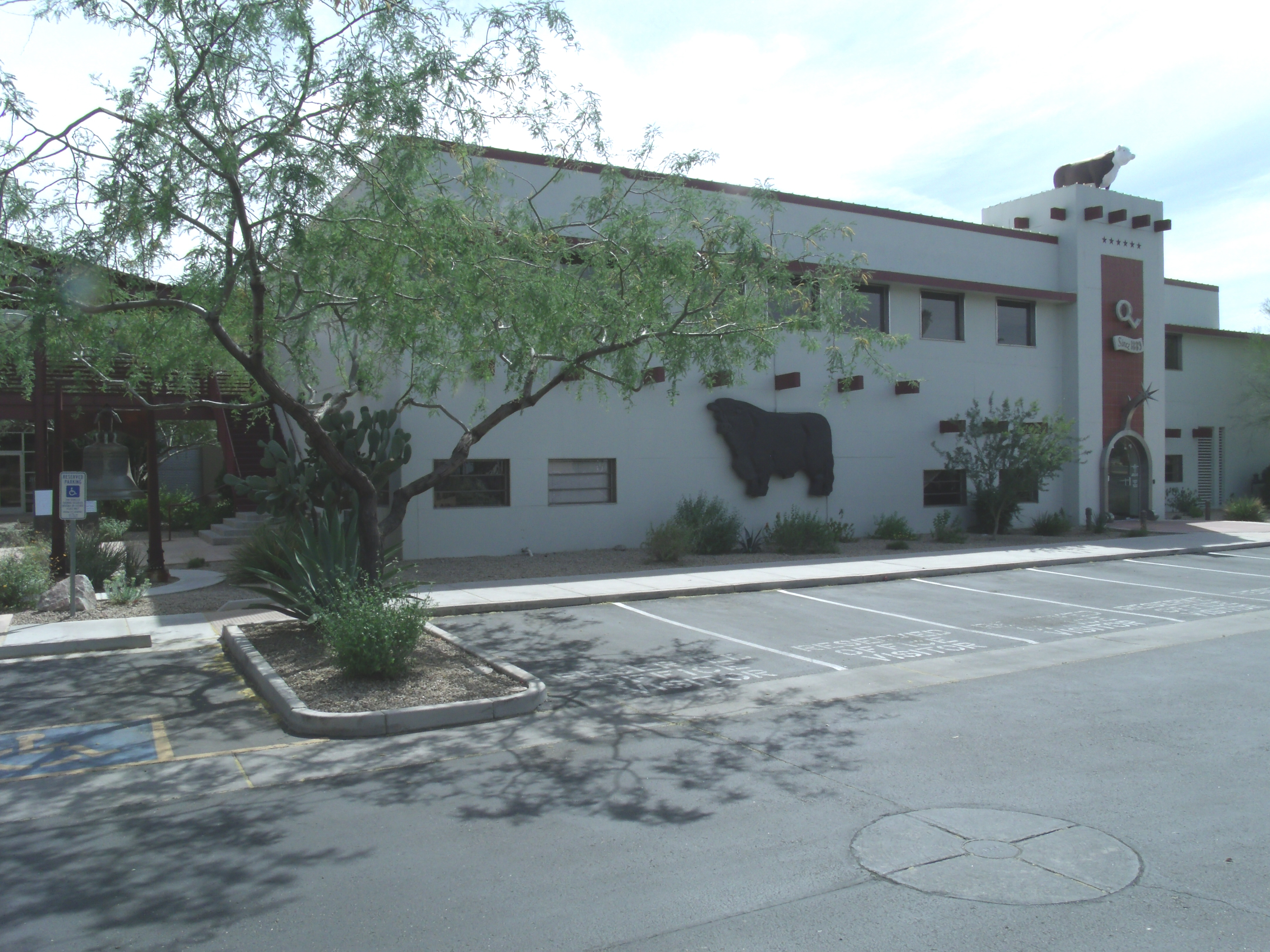 The Tovrea Land and Cattle Co. Administration Building / Stockyards Restaurant is located at 5009 E. Washington St. In 1919, Edward A. Tovrea, the “Cattle Baron,” opened his Phoenix packing house west of 48th Street and Van Buren to support his growing beef operations. The Tovrea Land and Cattle Co. had grown to nearly 40,000 head of cattle secured by 200 acres of cattle pens, making it the world’s largest feedlot. In 1947, The Stockyards Restaurant officially opened and quickly became a favorite gathering place for cattlemen, bankers and politicians. Although cattle fortunes faded in the late 1950’s and pens slowly gave way to urban growth, the popularity of Arizona’s Original Steakhouse remained intact.[1]. The property was listed in the Phoenix Historic Property Register in March 2004.